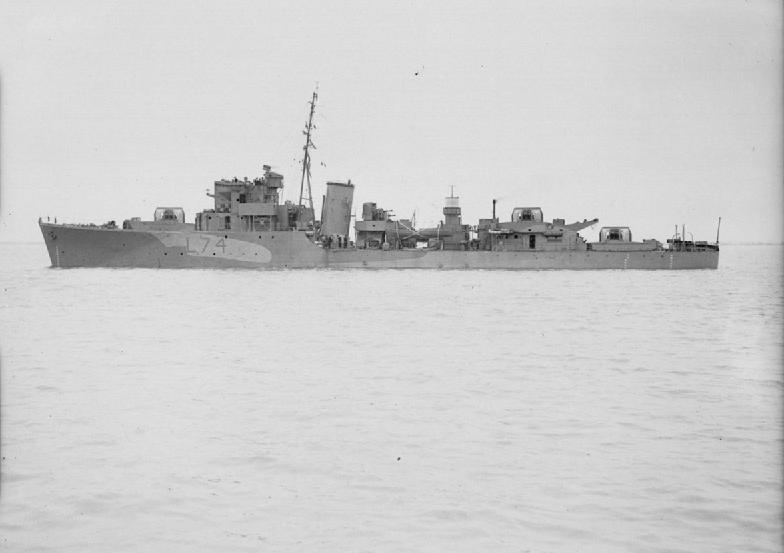 Photograph of British Hunt class destroyer HMS Middleton.